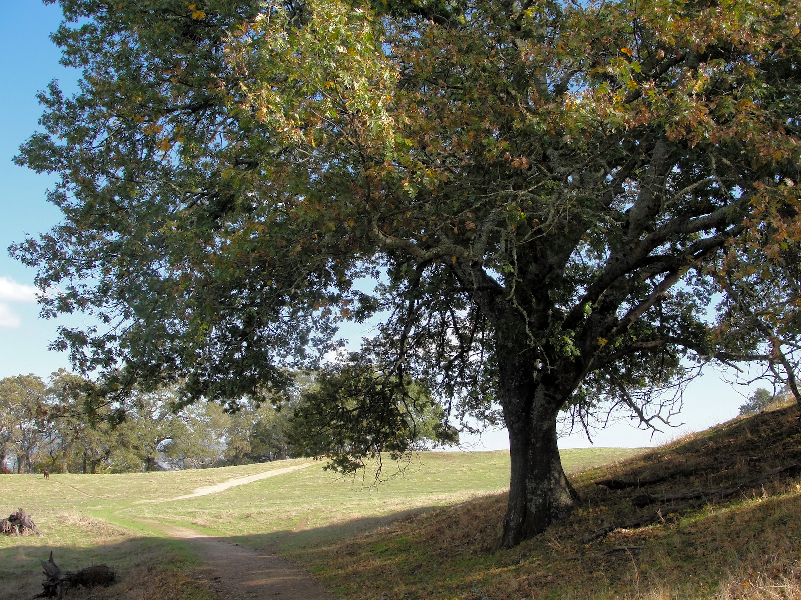 Black Oak Quercus kelloggii, Las Trampas Regional Wilderness Madrone Trail, California